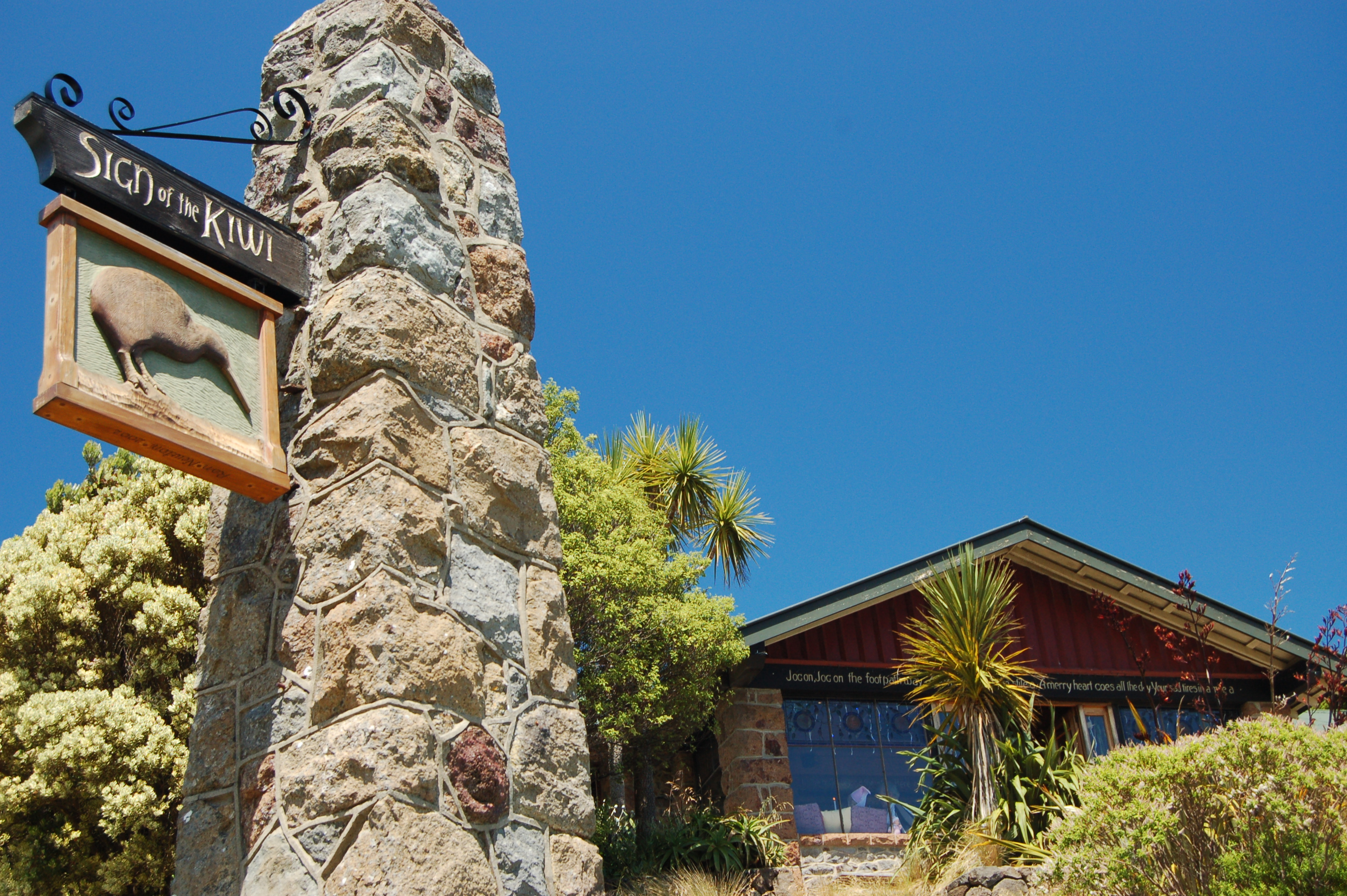 The Stone Plinth in front of the Sign of the Kiwi.